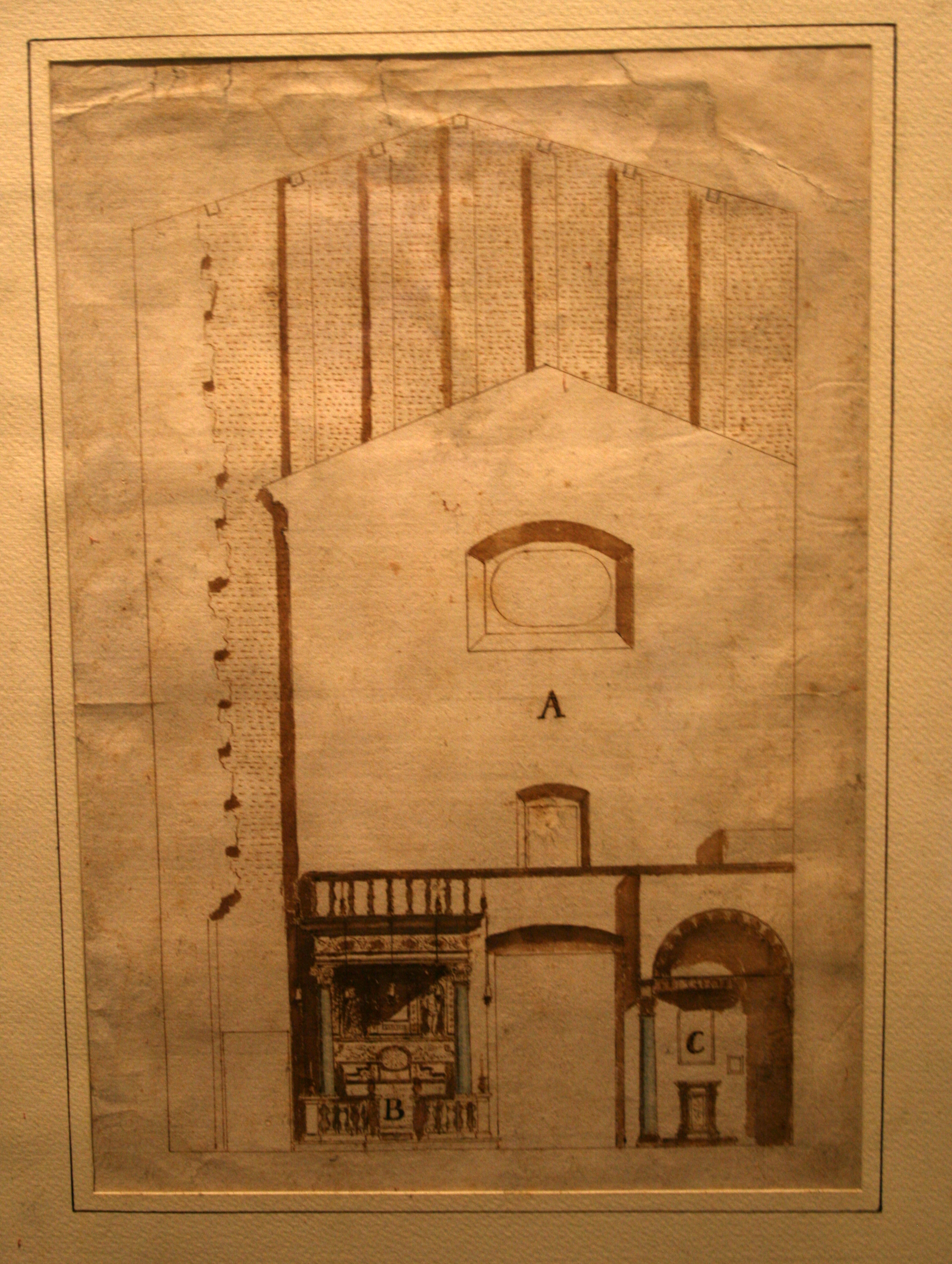 Old map of the Collegiate Church of San Lorenzo in Montevarchi